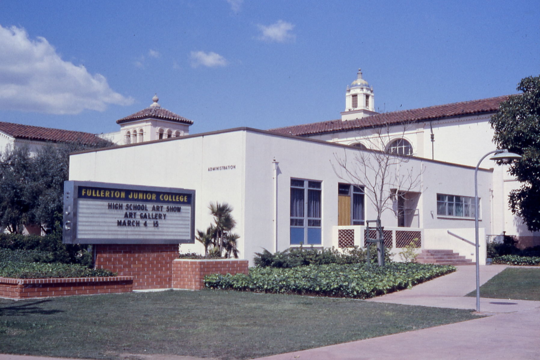 Front of Fullerton Junior College, Fullerton, California. Taken with a 35mm Exakta VX, using Ektachrome slide film.